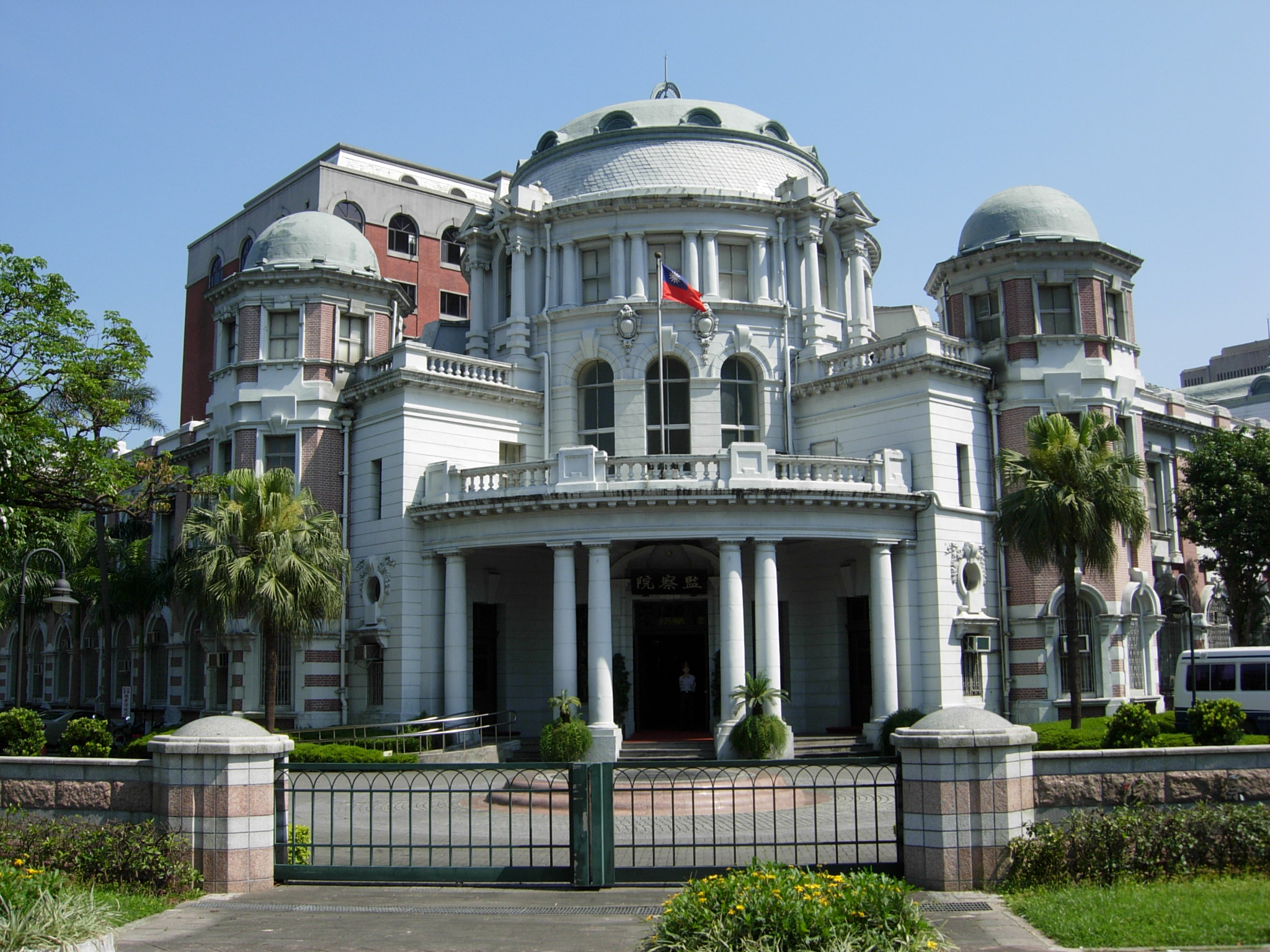 Control Yuan（Taipei, Taiwan）